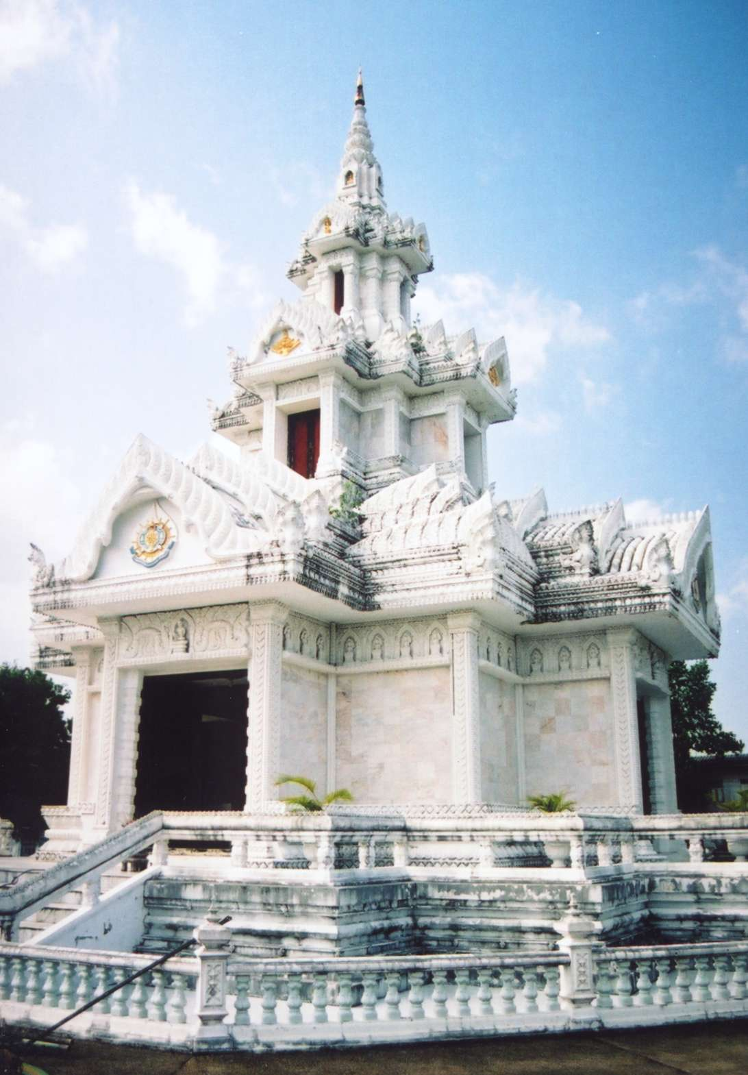 City pillar shrine of Nakhon Si Thammarat, Thailand. Photo taken by User:Ahoerstemeier on January 19 2005.